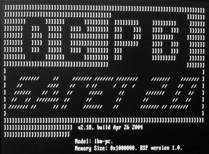 Starting photo of the real-time operating system "OS RV Baget" for Intel x86 BSP (board support package).